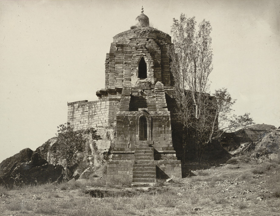 Kashmir. Temple of Jyeshteswara [Shankaracharya], on the Takht-i-Suliman Hill, near Srinagar. Probable date 220 B.C. 2